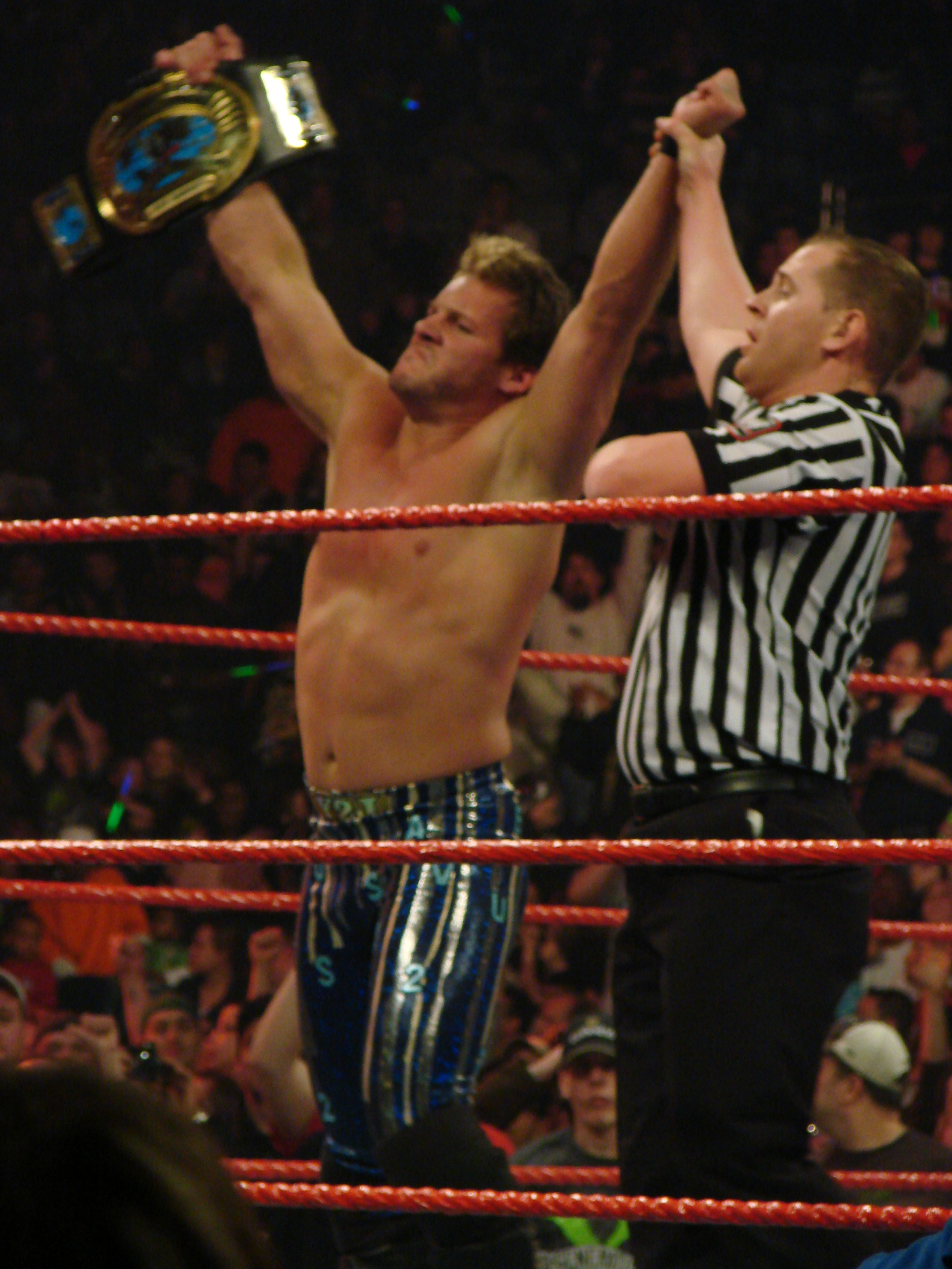 Chris Jericho after winning the WWE IC Championship. Bradley Center, Milwaukee WI. Taken by myself.